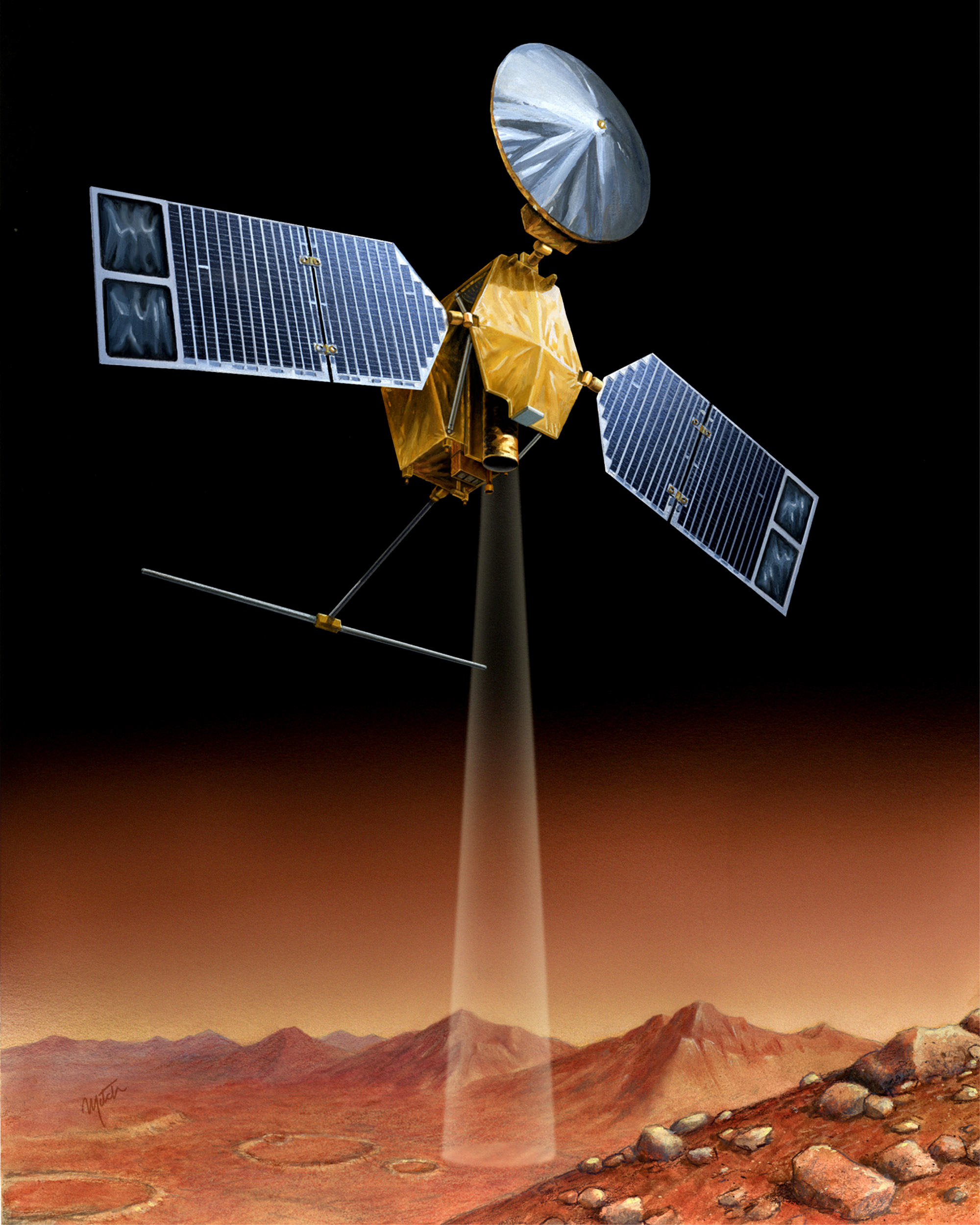 Early artist's concept of Mars Reconnaissance Orbiter and HiRISE at Mars.